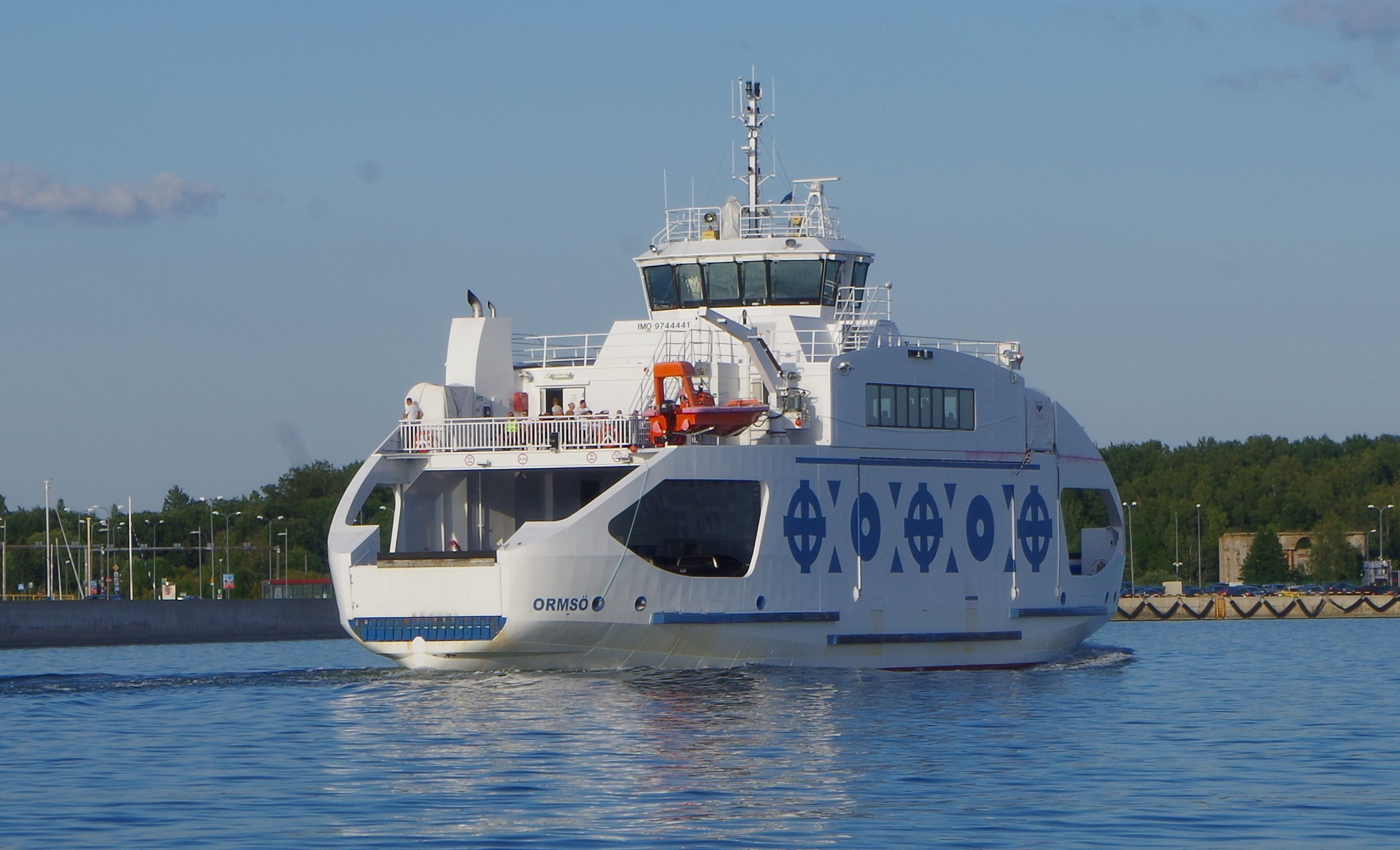 Ferry Ormsö entering Rohuküla port on July 21st 2019